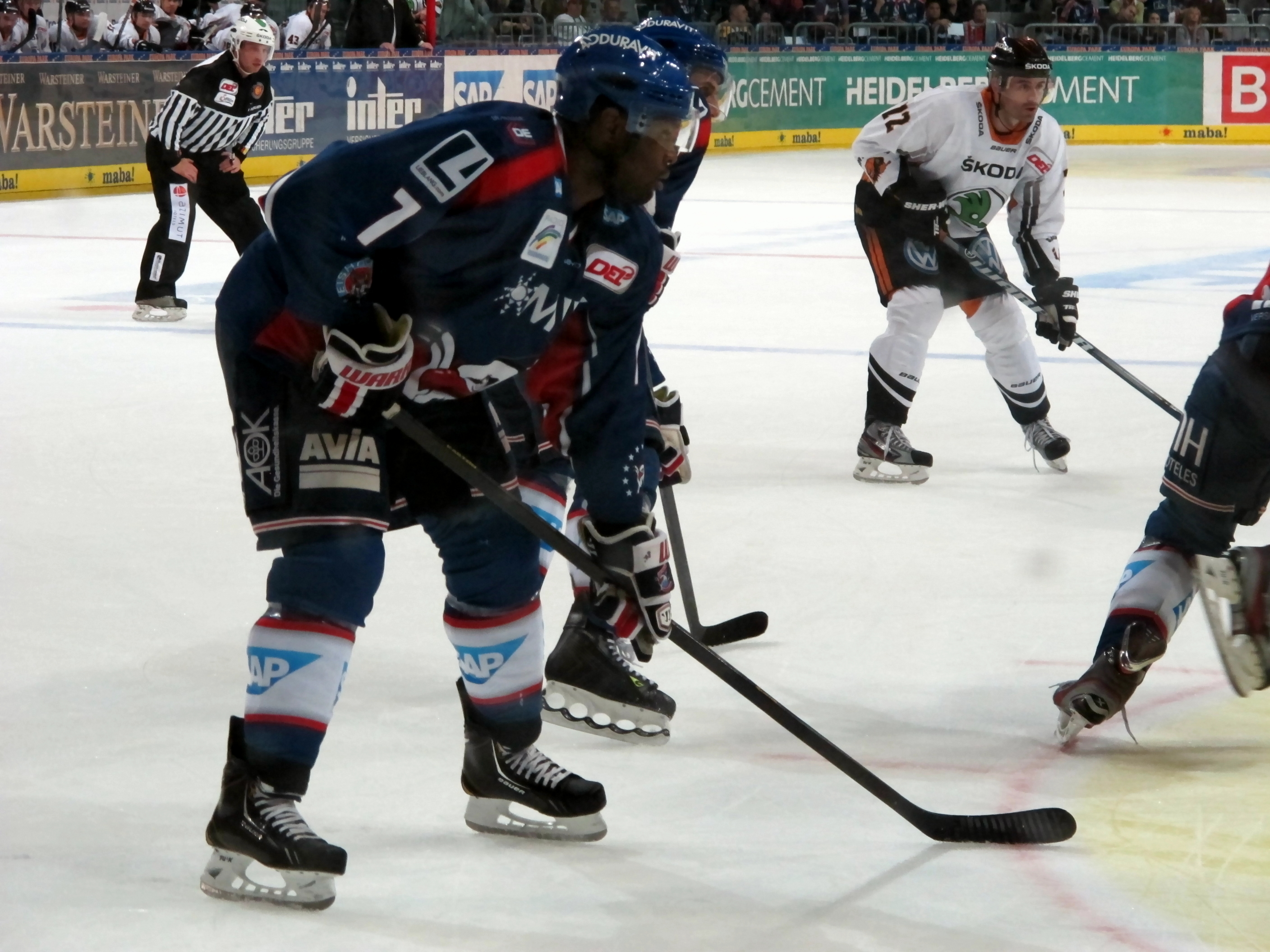 Shawn Belle, canadian ice hockey player, defenseman